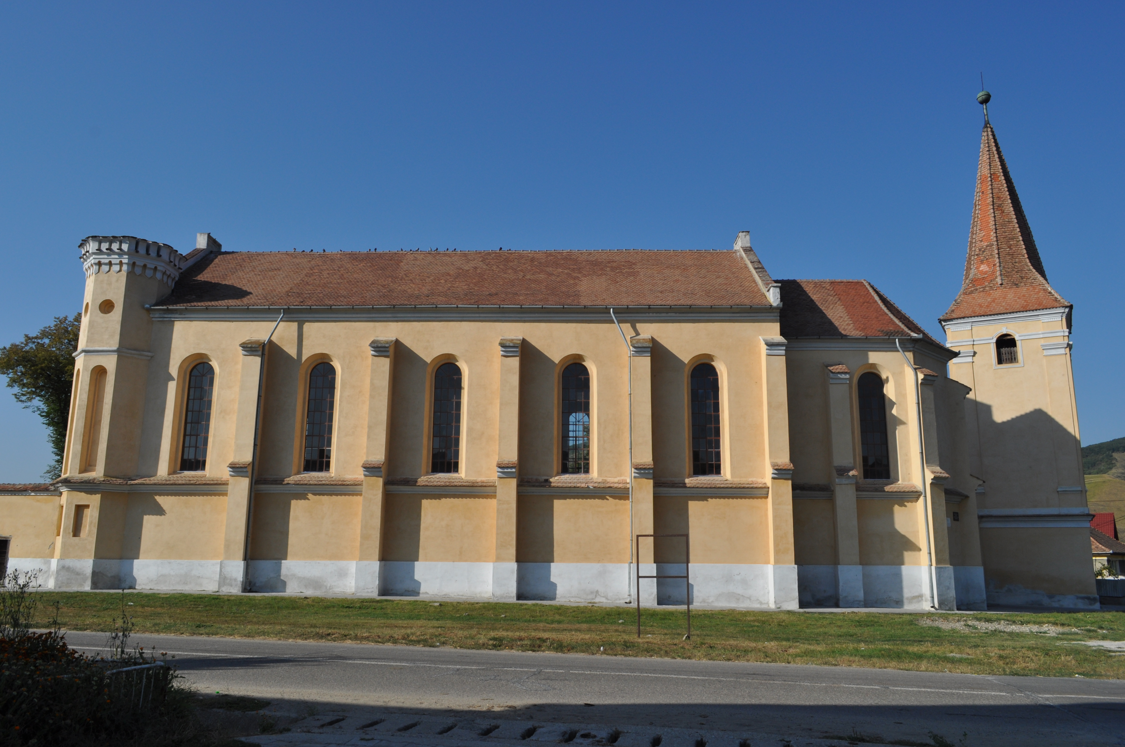 Saxon fortified church in Mănărade, Alba countyRomână: Biserica evanghelică fortificată din Mănărade, județul Alba 01